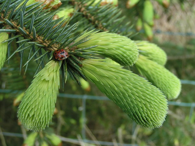 Ladybird on spruce. I was attracted by the photographic possibilities of the bright green shoots, then spotted (!) the ladybird. It appears to be an Eyed Ladybird (Anatis ocellata), Britain's largest species of ladybird, whose host plants are "needled conifers". for more information.